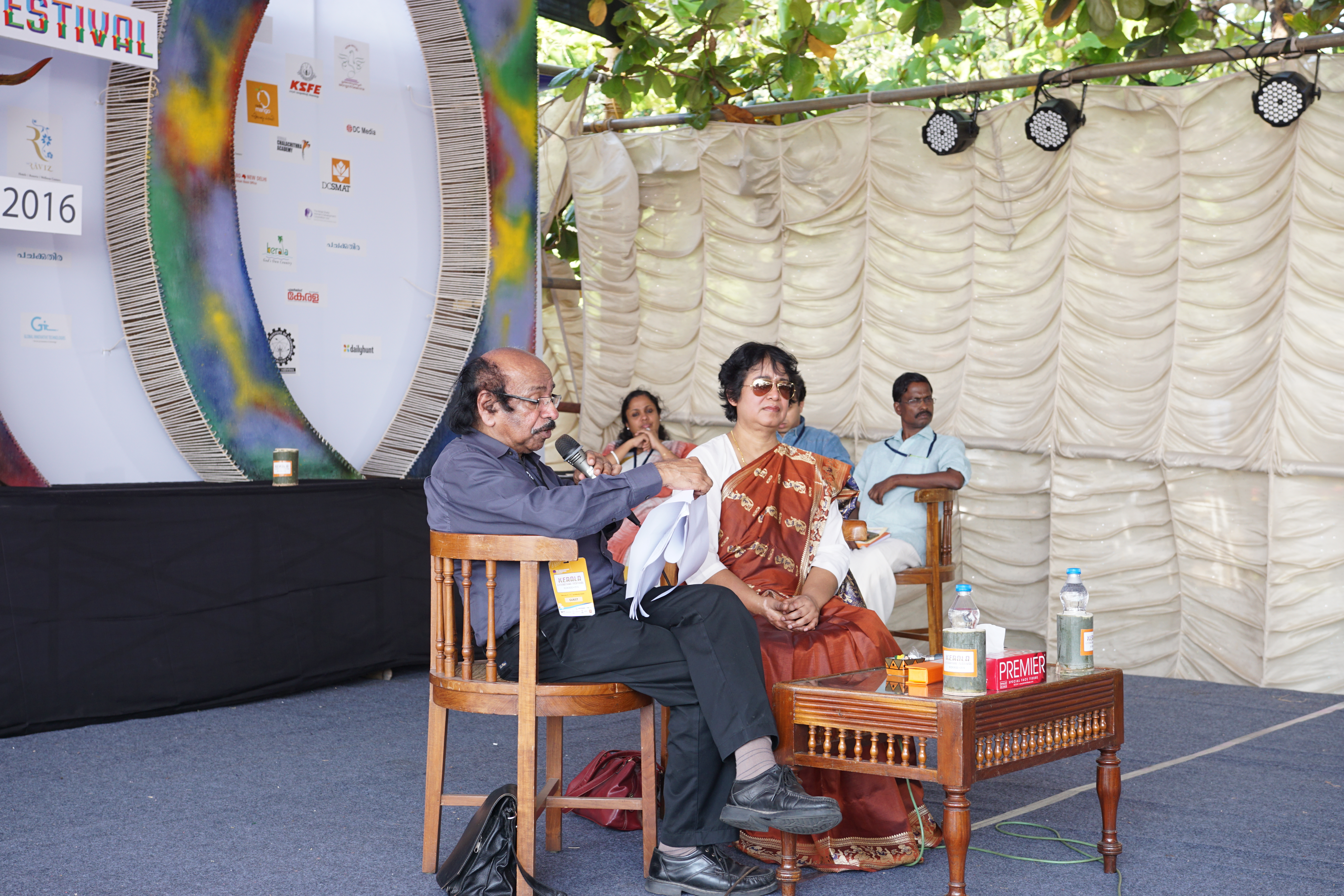 KLF-2016